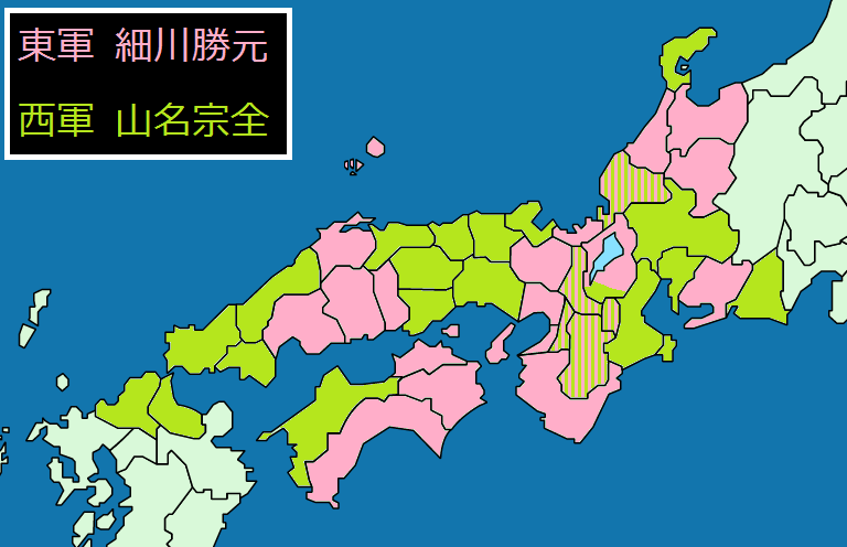 Edited from Maps_of_the_former_provinces_of_Japan